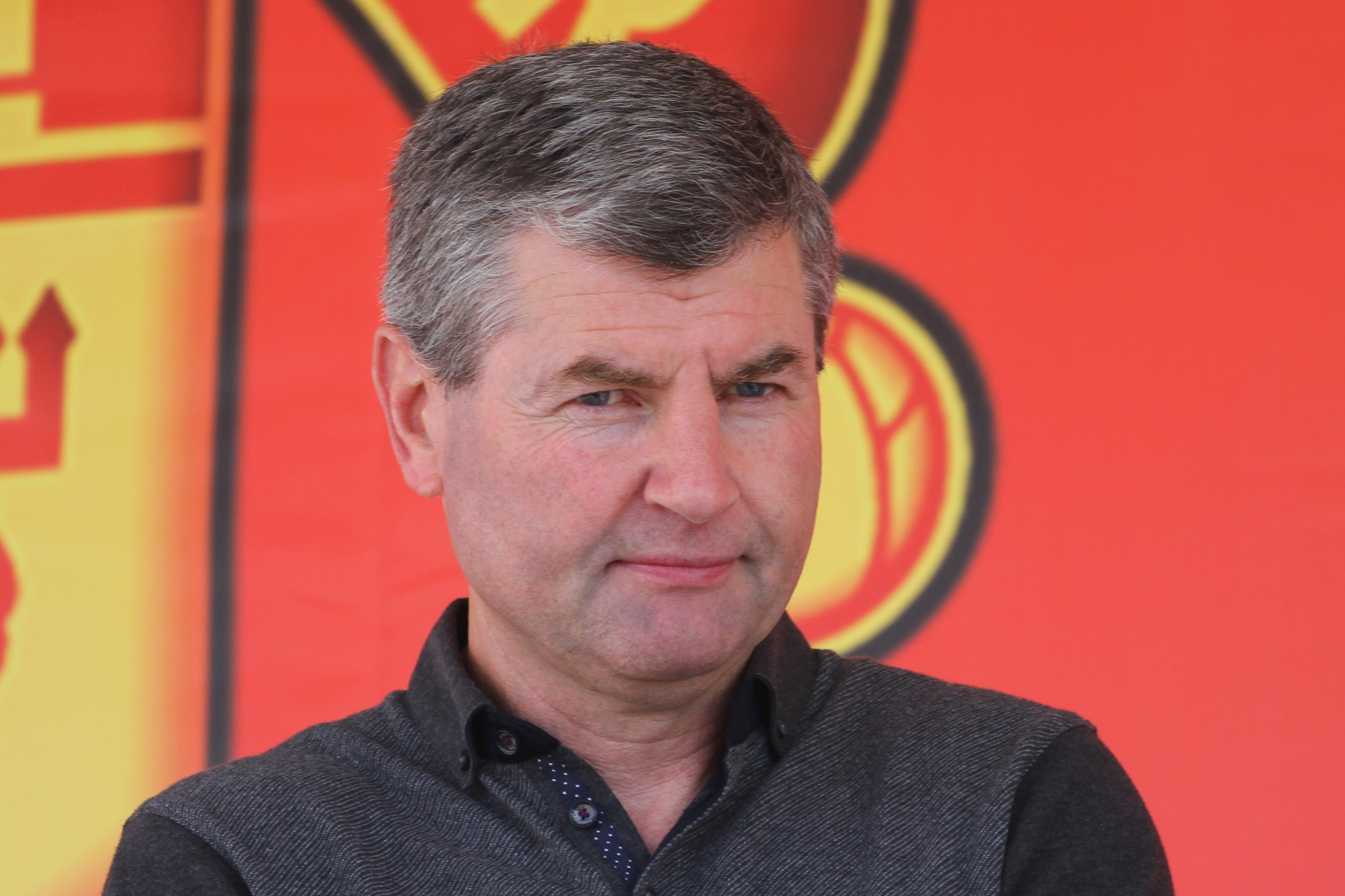 Denis Irwin, former football player.